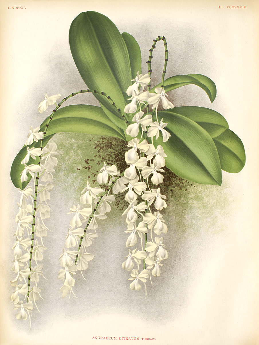 The Lemon-scented Aerangis